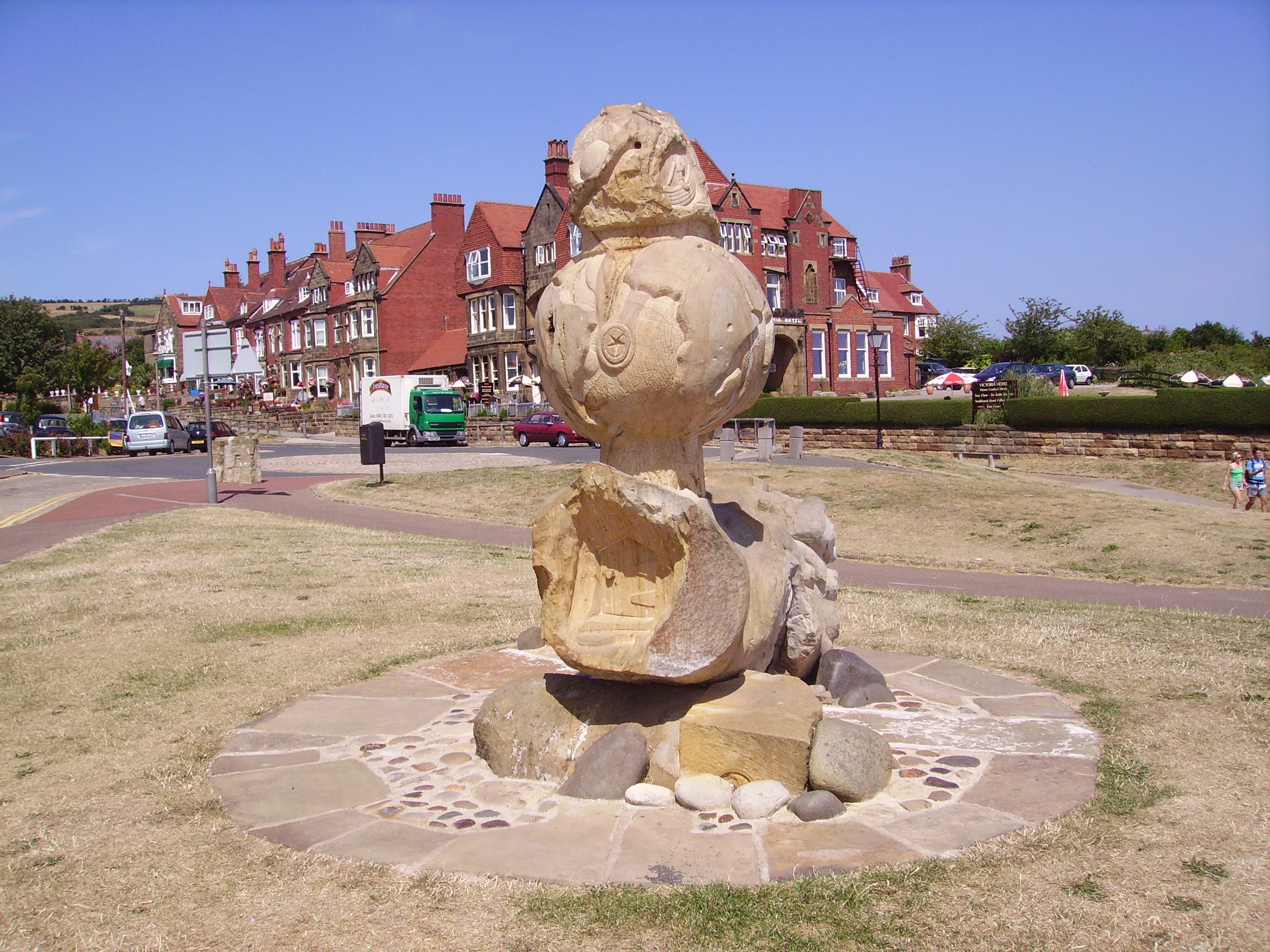 beach of Robin Hood's Bay in Yorkshire, United Kingdom